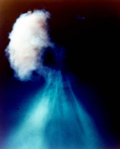 Photo of the "Plumbbob John" nuclear warhead test over the Yucca Flats Nuclear Test Site, Nevada (USA), at 14:00 hrs on 19 July 1957. This test was a combination proof test of the AIR-2A Genie unguided air-to-air rocket, and an effects test of the W-25 warhead. The AIR-2A was fired from a Northrop F-89J Scorpion fighter. The rocket travelled 4240 meters in 4.5 seconds at an altitude of 6,000 m (18,500 ft) before detonating the 1.7 kt warhead.